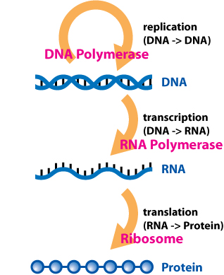 An overview of the (basic) central dogma of molecular biochemistry with all enzymes labeled.